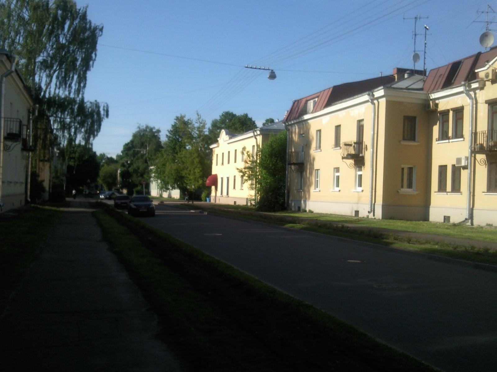 Oskalenko Street in Saint Petersburg, Russia